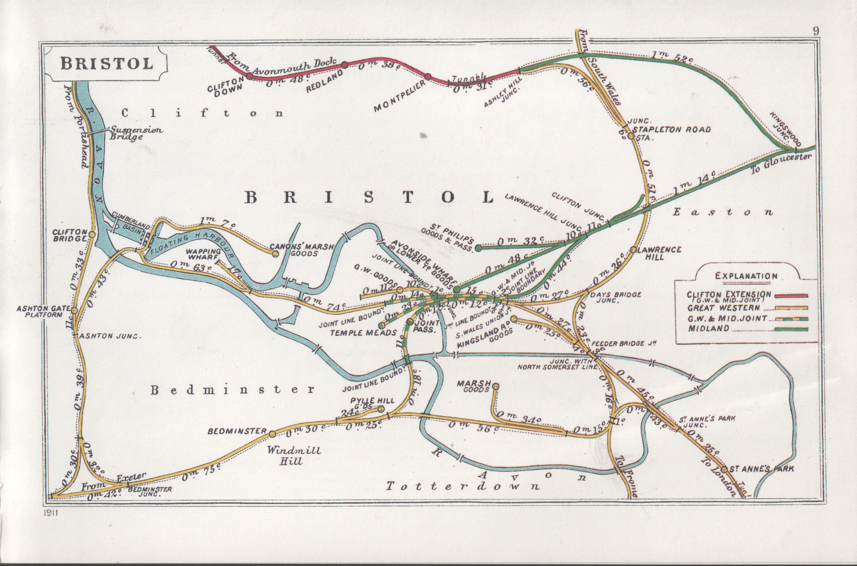 Pre Grouping railway junction around Bristol